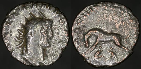 Coin of roman emperor Septimus Severus (146-211 AD), minted in Mediolanum, dedicated to the Legion II Italica (left: radiate cuirassed bust right, holding spear in left hand over left shoulder; right: She-wolf standing left, suckling twins)